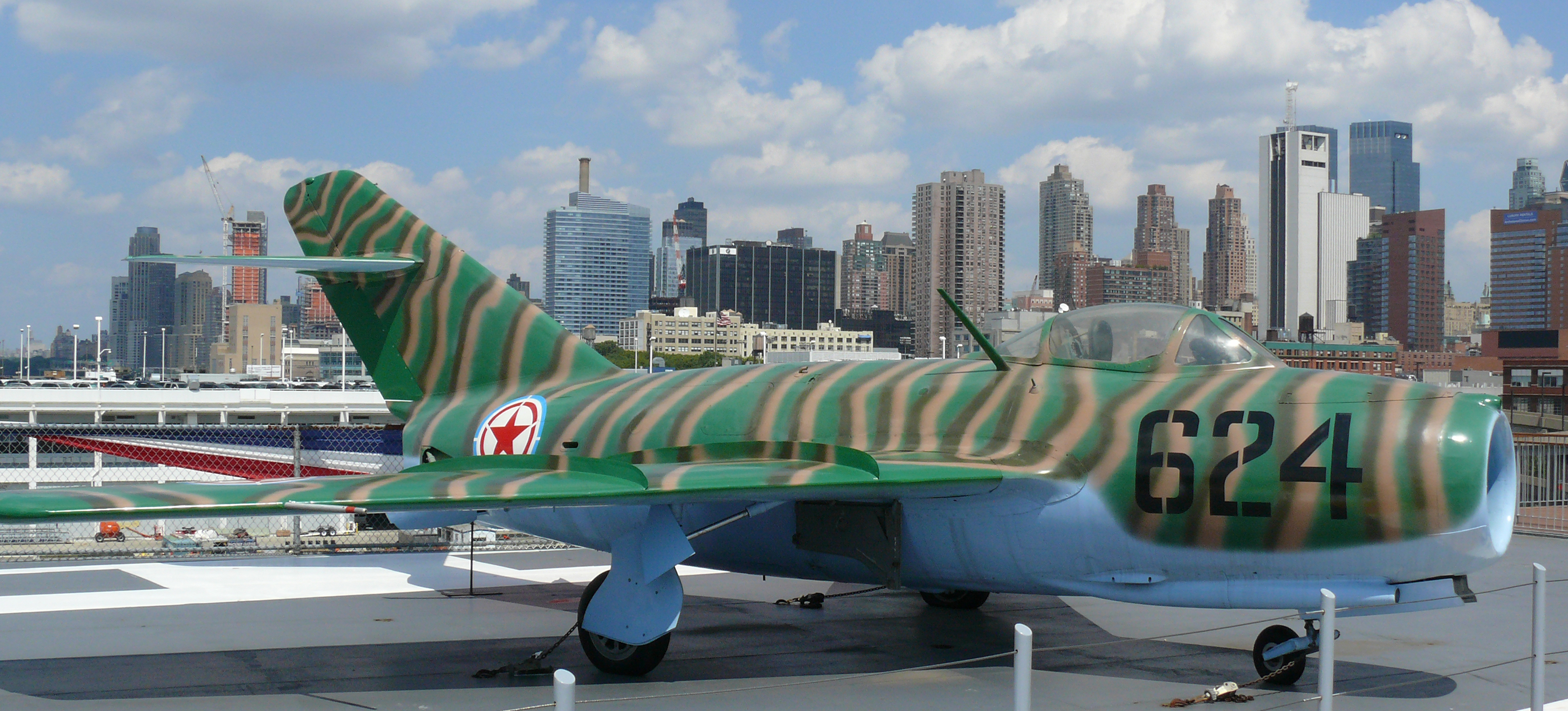 MiG-15 in the Intrepid Sea-Air-Space Museum. The MiG-15 was one of the first successful swept-wing jet fighters, and it achieved fame in the skies over Korea, where early in the war, it outclassed all straight-winged enemy fighters in daylight. This MiG-15 is Chinese built and painted in the colours of the Soviet aces participating in the Korean War.